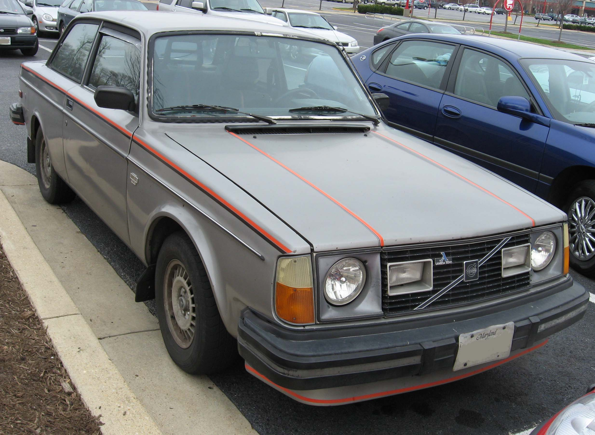 1979-1980 Volvo 242 GT coupe (with European specification park and turn signal lenses) photographed in USA.